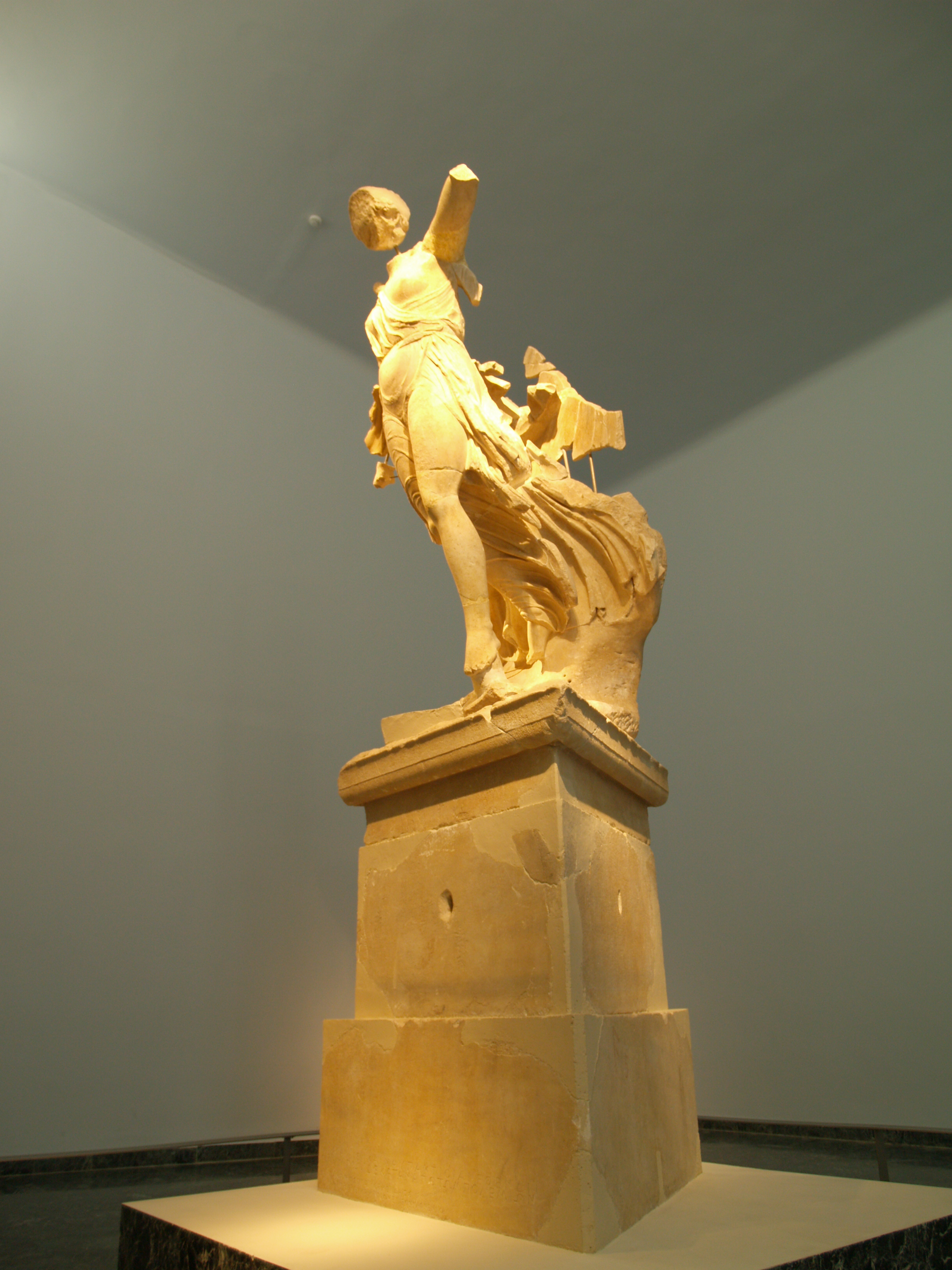 The Nike of Paionios statue depicts a winged woman. An inscription on the base states that the statue was dedicated by the Messenians and the Naupactians for their victory against the Lacedaemonians (Spartans), in the Archidamian (Peloponnesian) war probably in 421 BCE. It is the work of the sculptor Paionios of Mende in Chalkidiki, who also made the acroteria of the Temple of Zeus. Nike, cut from Parian marble, has a height of 2.115m, but with the tips of her (now broken) wings would have reached 3m. In its completed form, the monument with its triangular base (8.81m high) would have stood at the height of 10.92m, giving the impression of Nike triumphantly descending from Olympus.Nike of Paionios statue